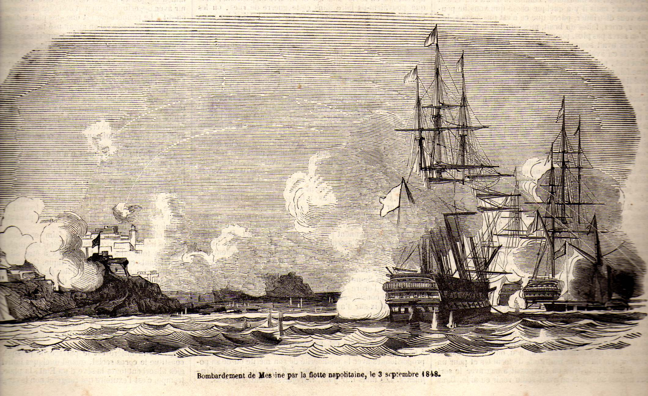 Bombardament of Messina by the Napolitanian fleet, 3rd September 1848